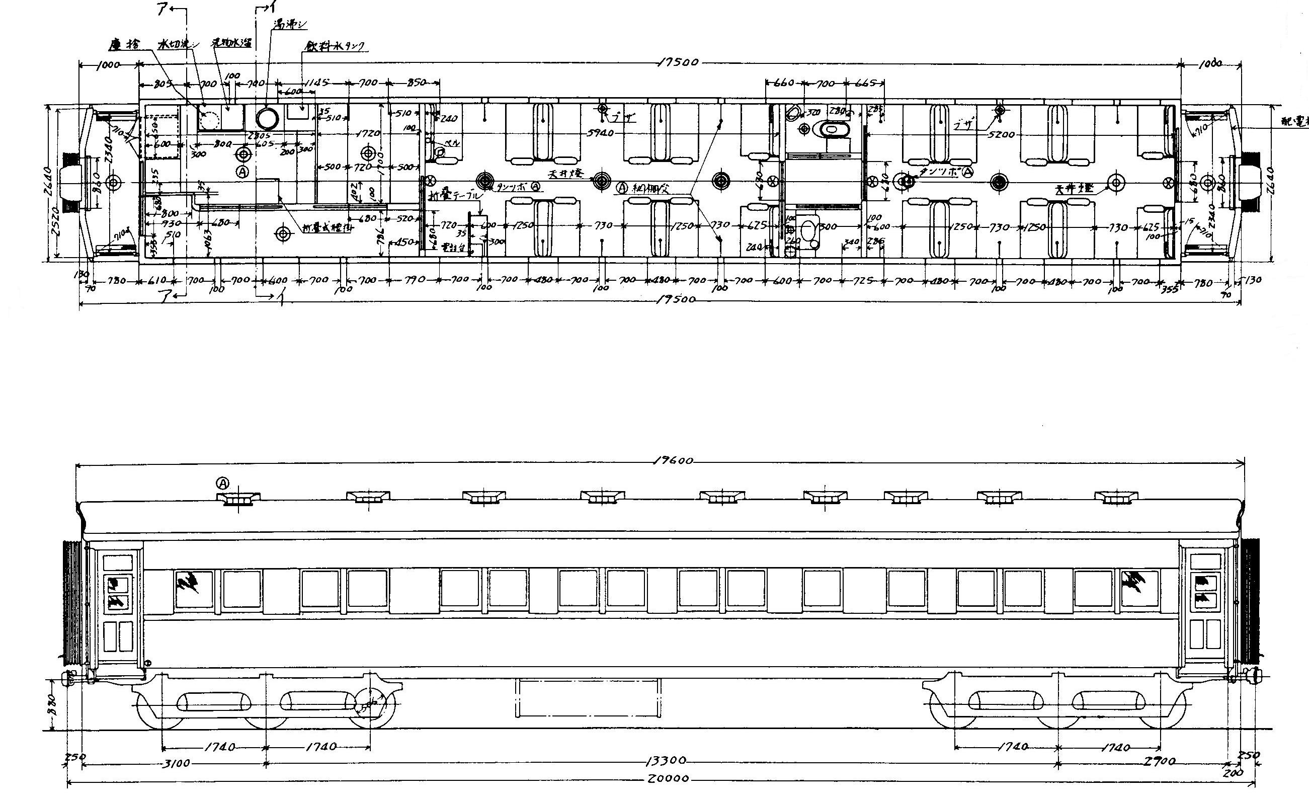 Type drawing of JGR's royal passenger car Gubusha No.400